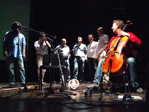 Mola Sylla, "Concordu e Tenore de Orosei" and Ernst Reijseger playing music from the movie The Wild Blue Yonder by Werner Herzog. Milan (Italy), 05/22/06.